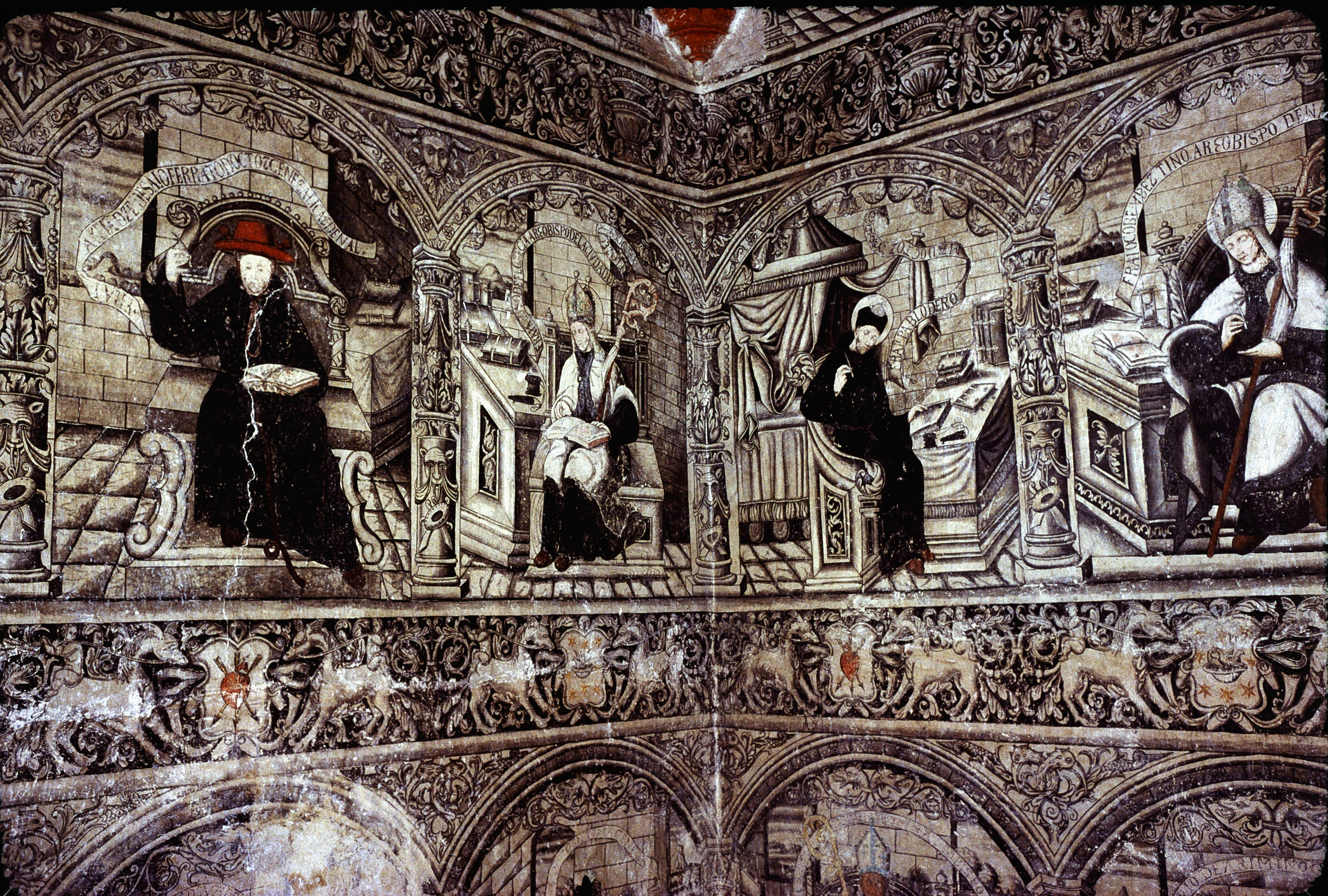 Actopan, Hidalgo, Mexico: Monastery, mural in staircase